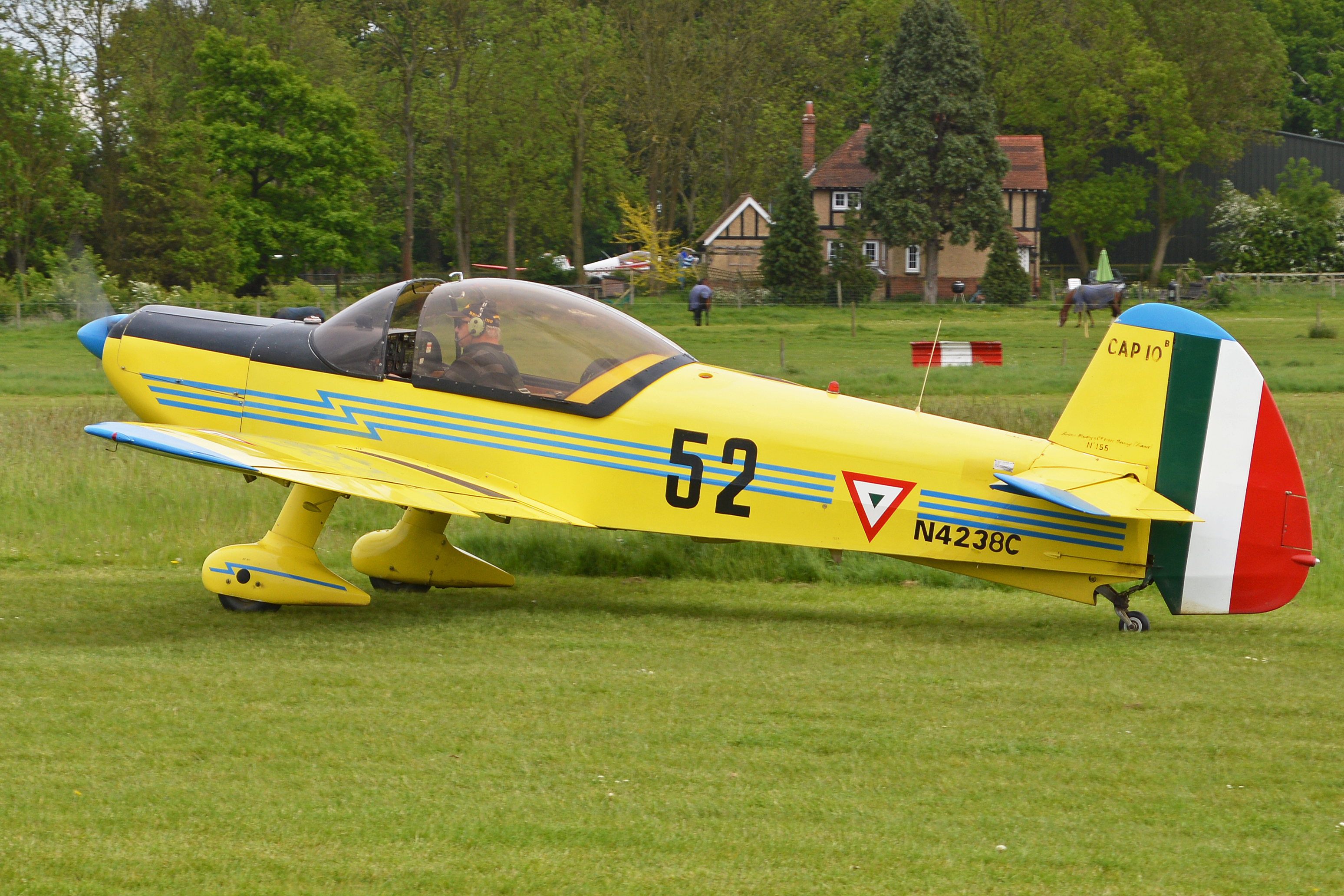 c/n 155. Built 1965. This is a genuine ex Mexican Air Force aircraft which served with the serial ‘EPC-152’. Now privately owned, it is seen taxiing in after landing at Old Warden, Bedfordshire, UK. 22-5-2016